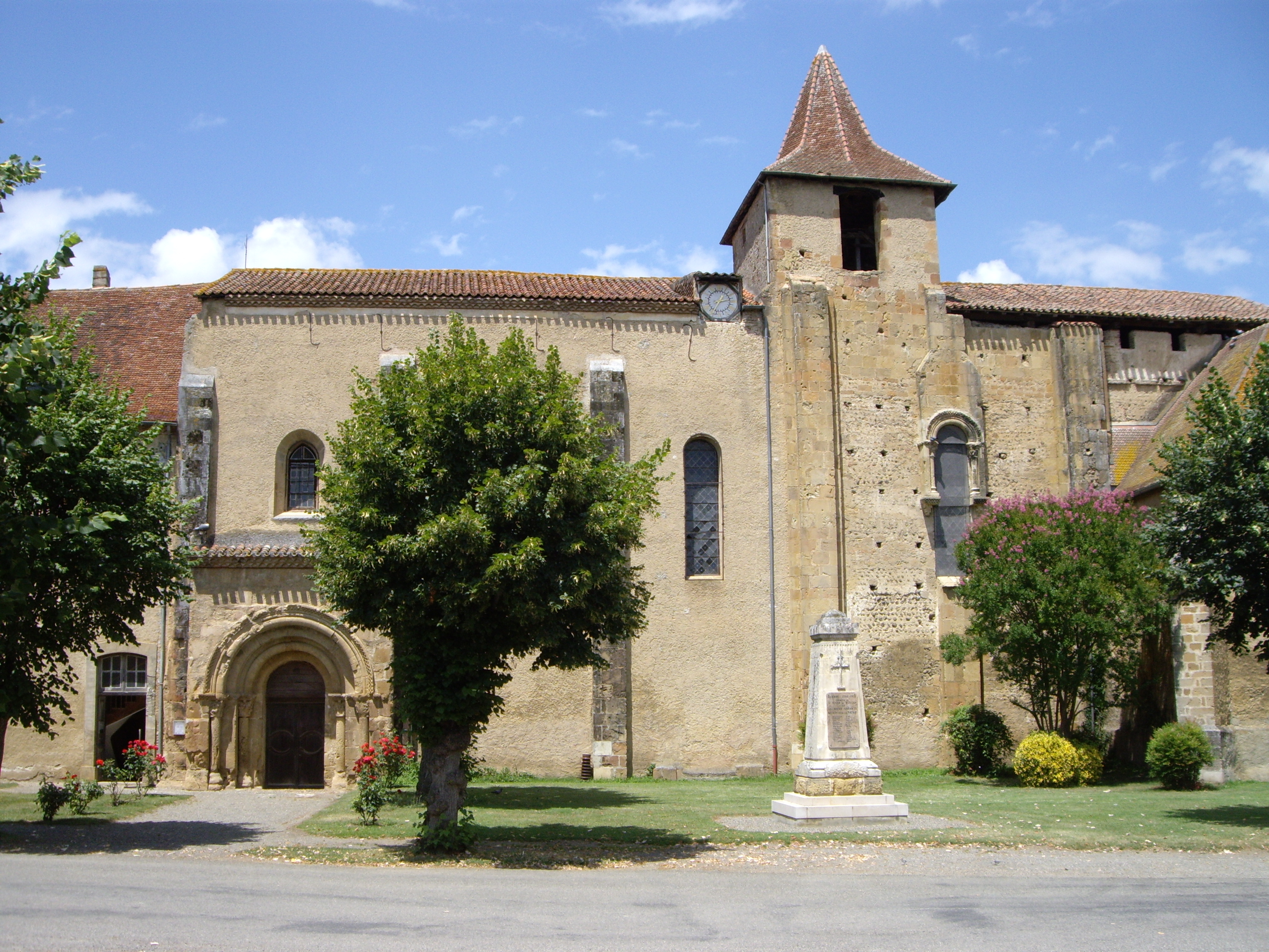 Saint-Sever-de-Rustan Abbey and war memorial